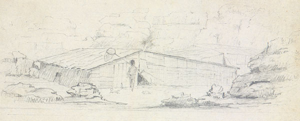 Image taken from - due to its age, it's in the public domain.